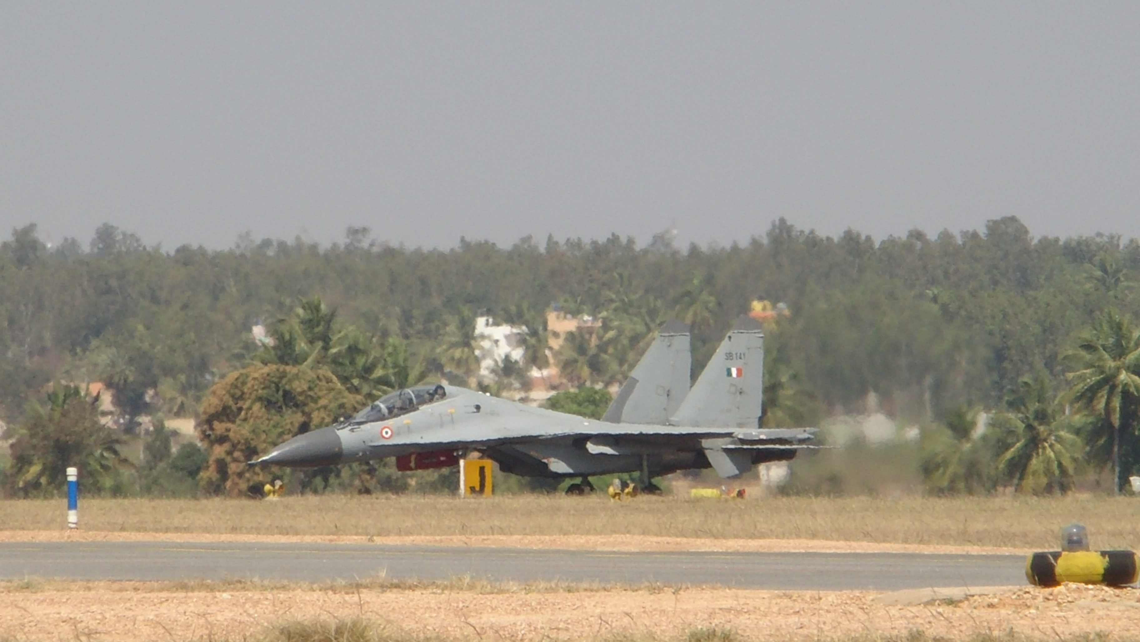 Su 30 MKI Taxies to the runway for take off at Yelahanka air force base Bangalore.